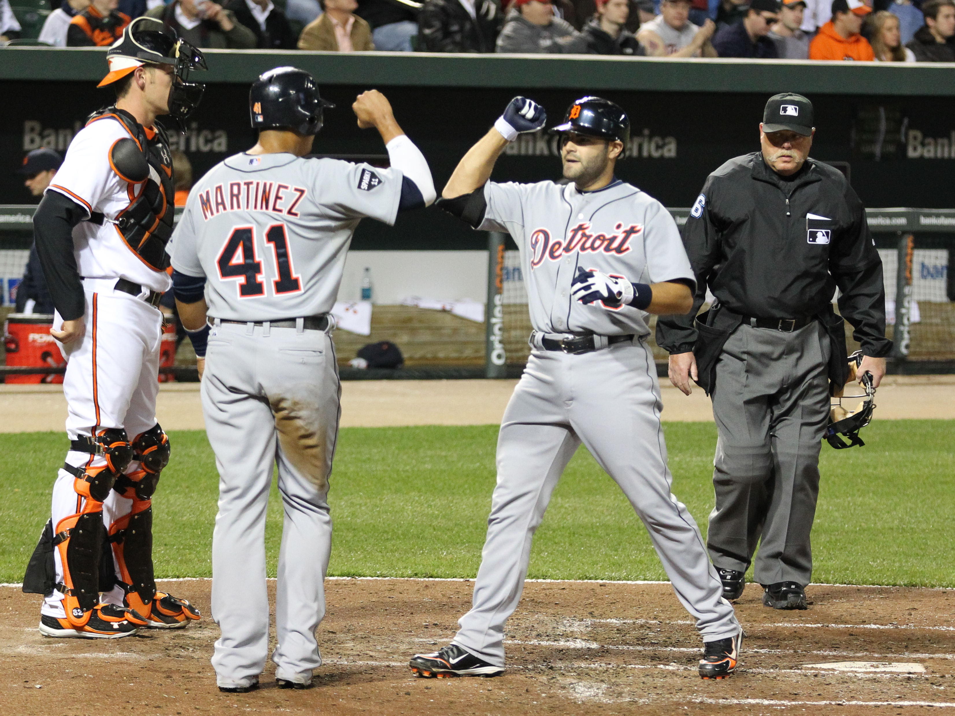 Baltimore Orioles v/s Detroit Tigers April 6, 2011